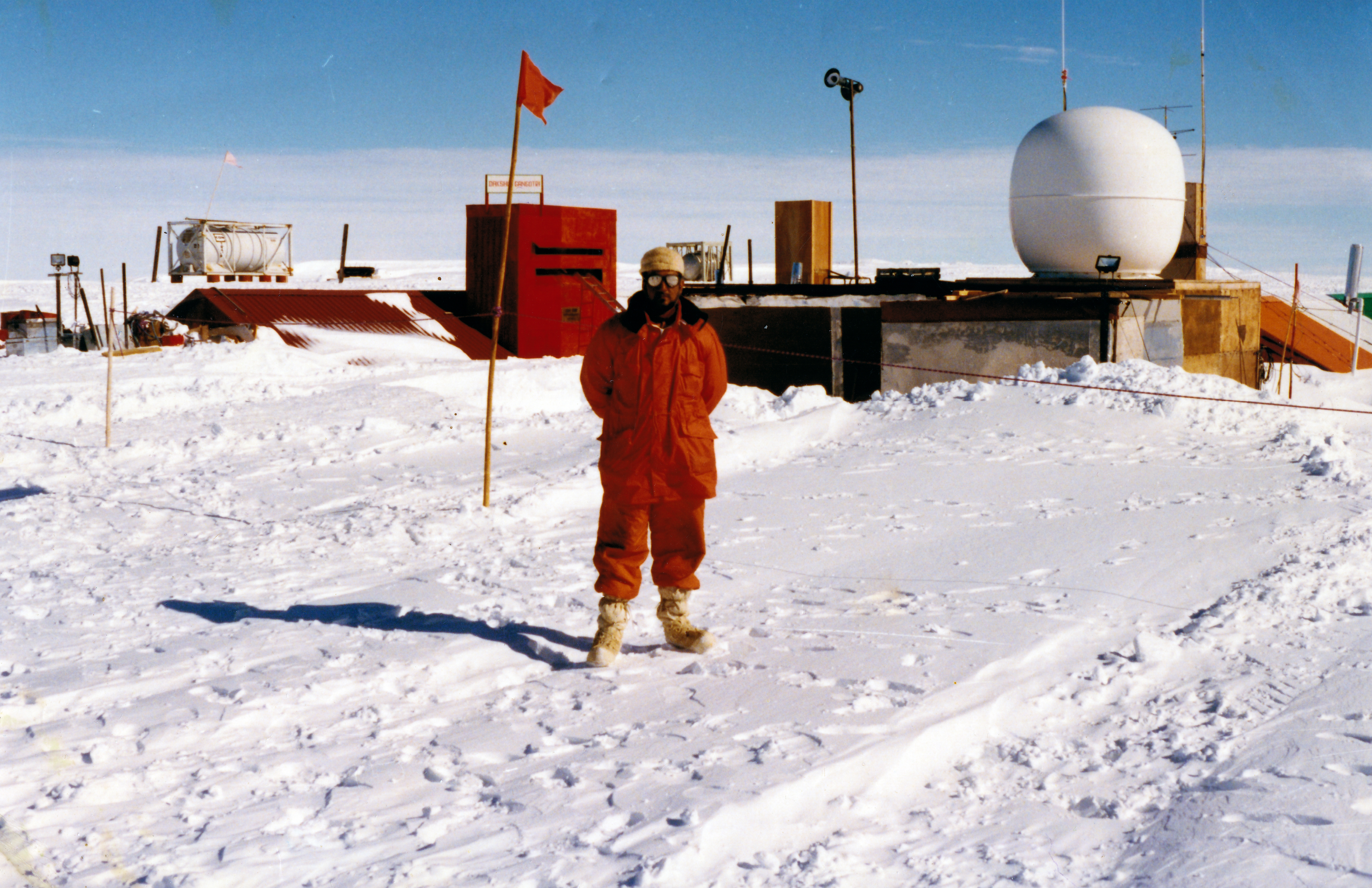 Mohammed Ghous uzzaman, a member of 7th Indian Antarctic Expedition Team at Dakshin Gangotri. (26 January 1988)